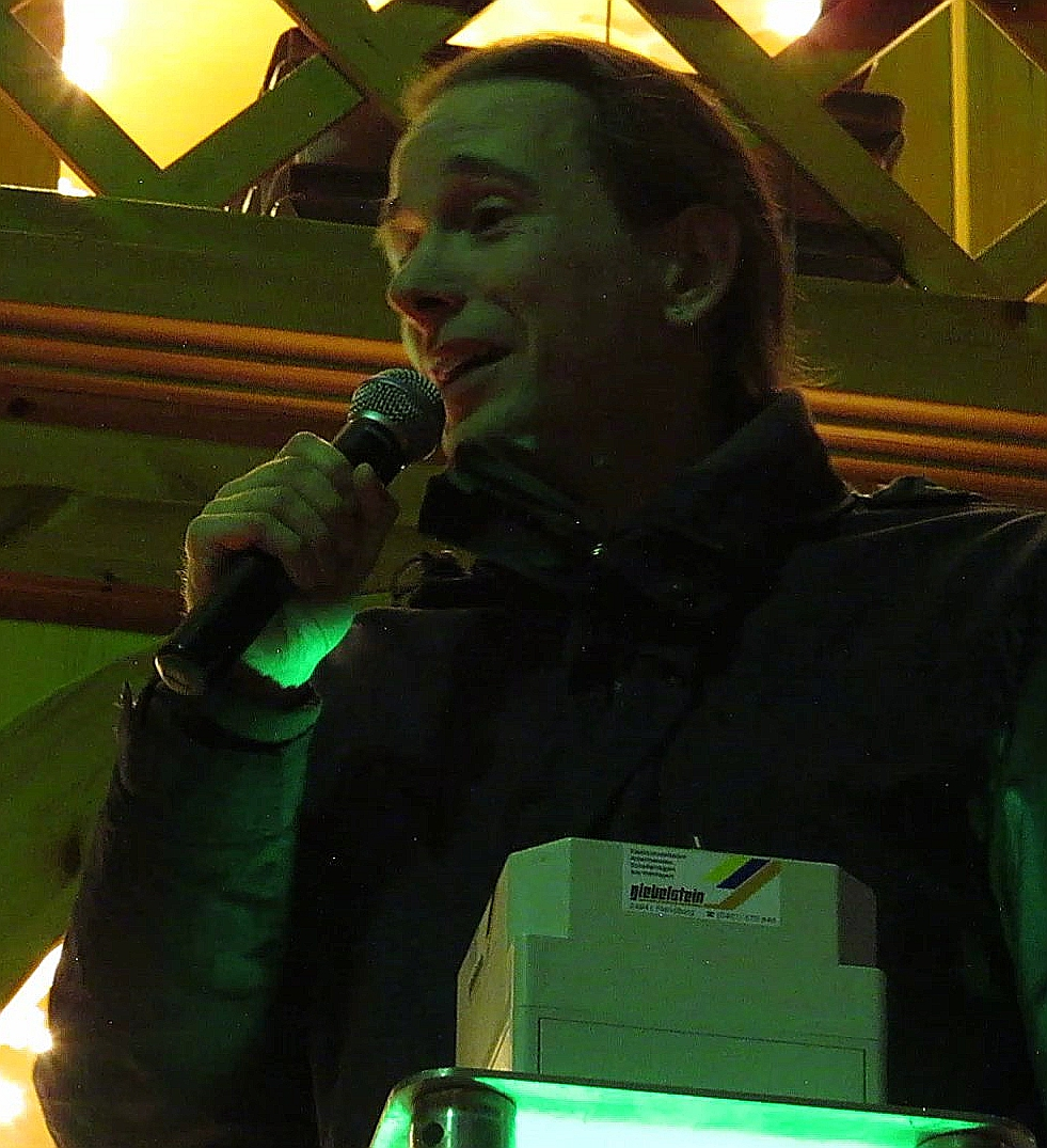 Dr. Christian Dewanger (WiF) bei der Eröffnung des Weihnachtsmarktes 2012 auf dem Südermarkt in Flensburg